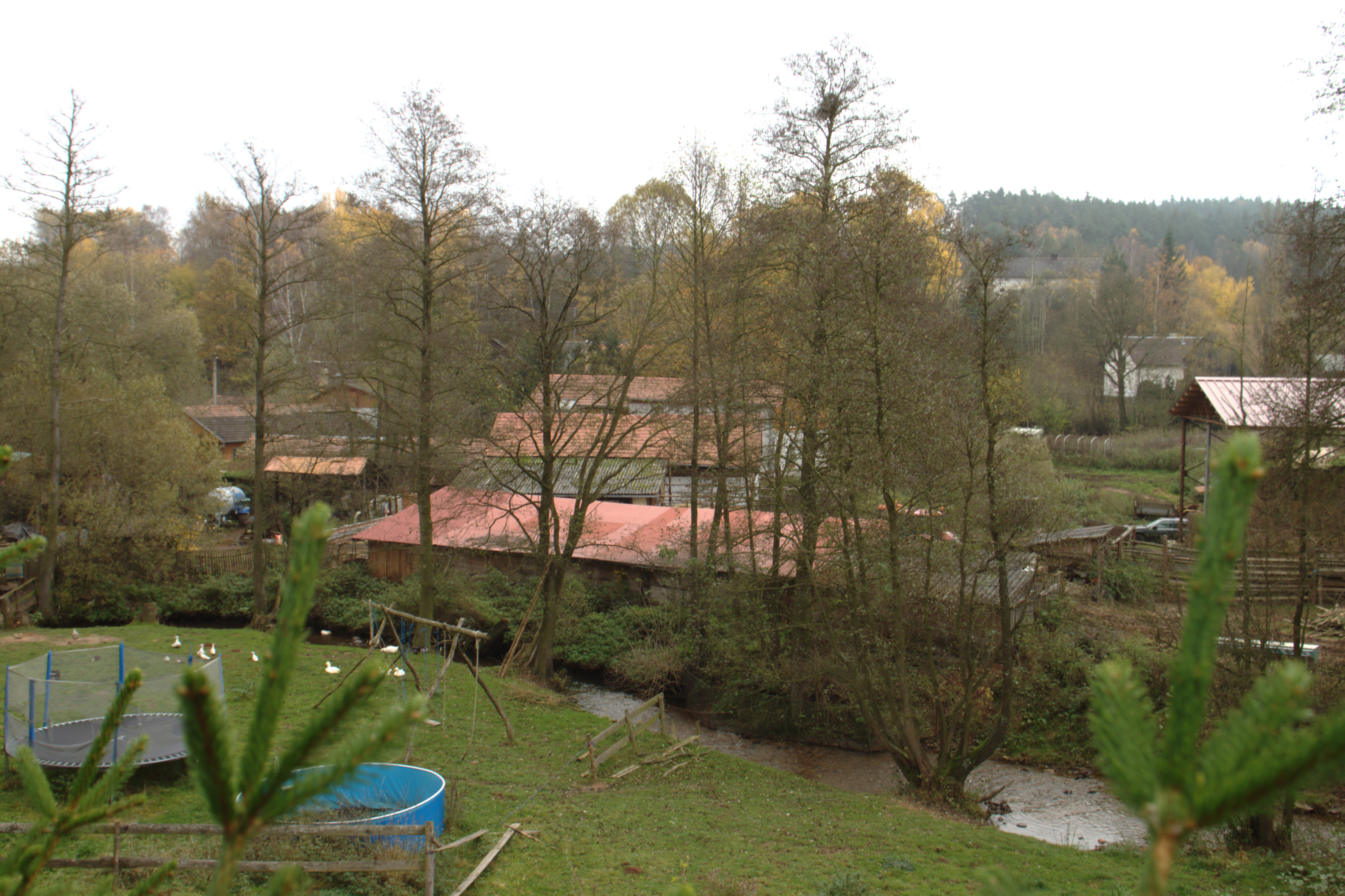 View of the Lešovice village, Plzeň Region, CZ